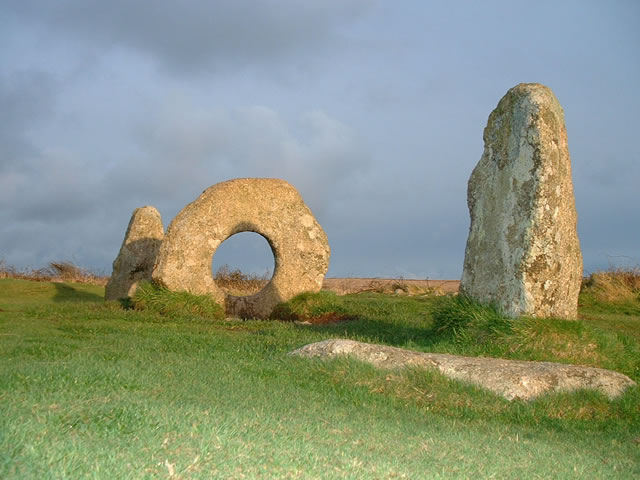 replacement image wot i took meself.